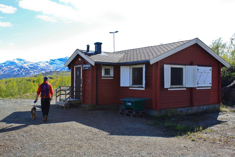 Picture of Søsterbekk railway stop along the Ofot Line, east of Narvik.